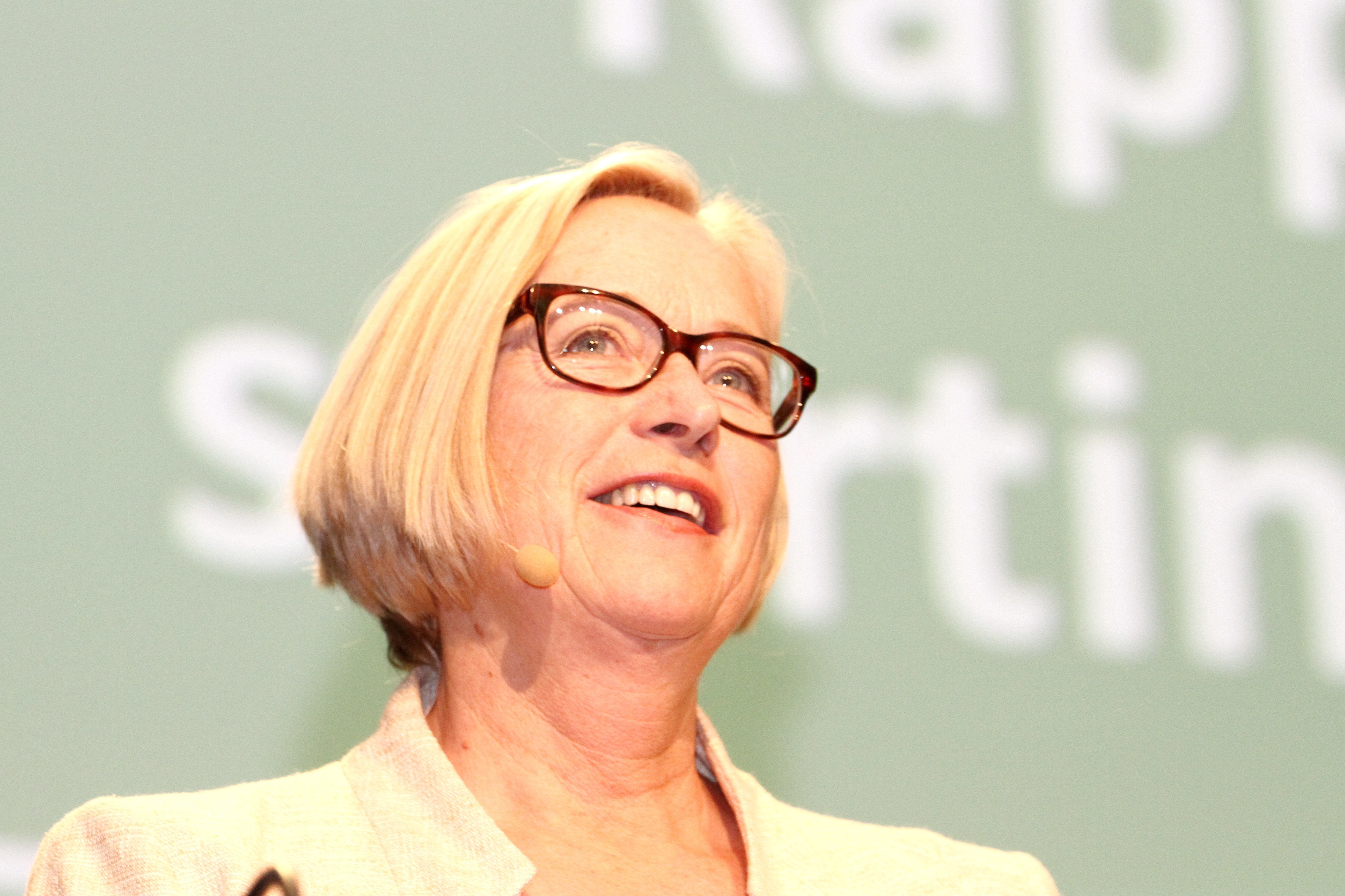 Marit Arnstad